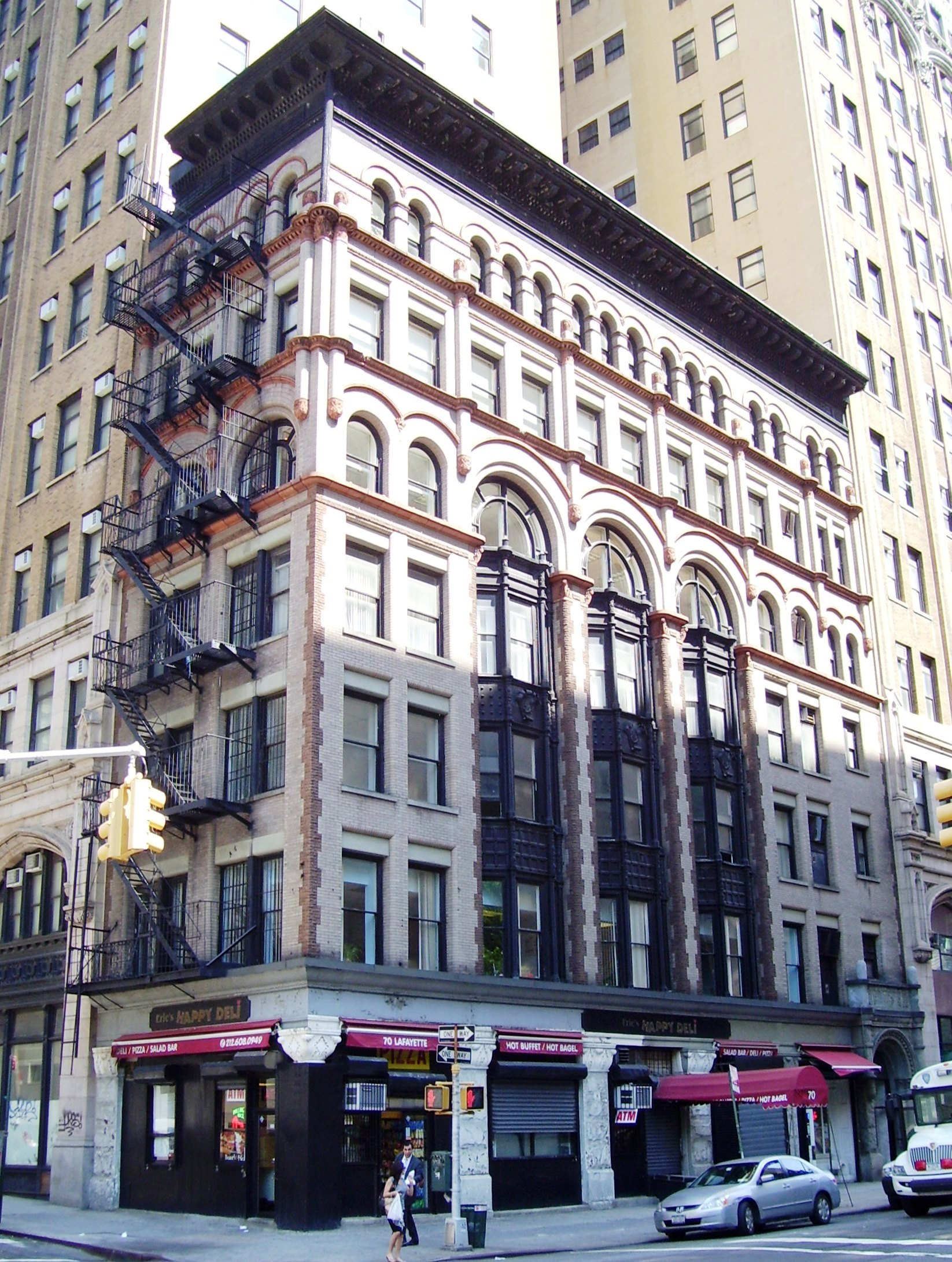 The Ahrens Building at 70 Lafayette Street (70-76) on the corner of Franklin Street in the Civic Center section of Manhattan, New York City, was built in 1894-95 and was designed by George H. Griebel in the Romanesque Revival style. It was designated a NYC landmark in 1992. (Source: Guide to NYC Landmarks (4th ed.))